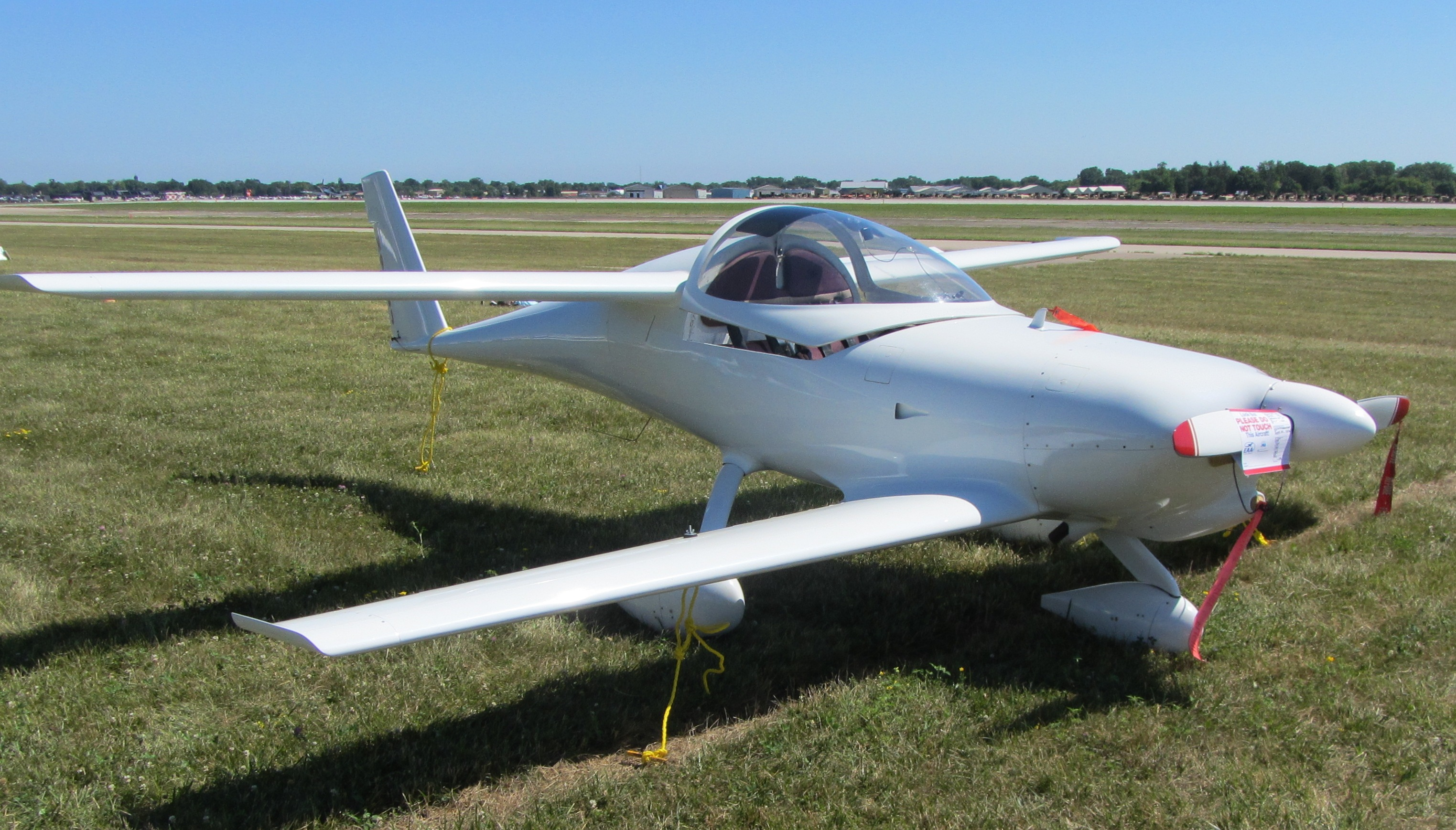 TriQ-200, a tricycle landing gear version of the Rutan Quickie.